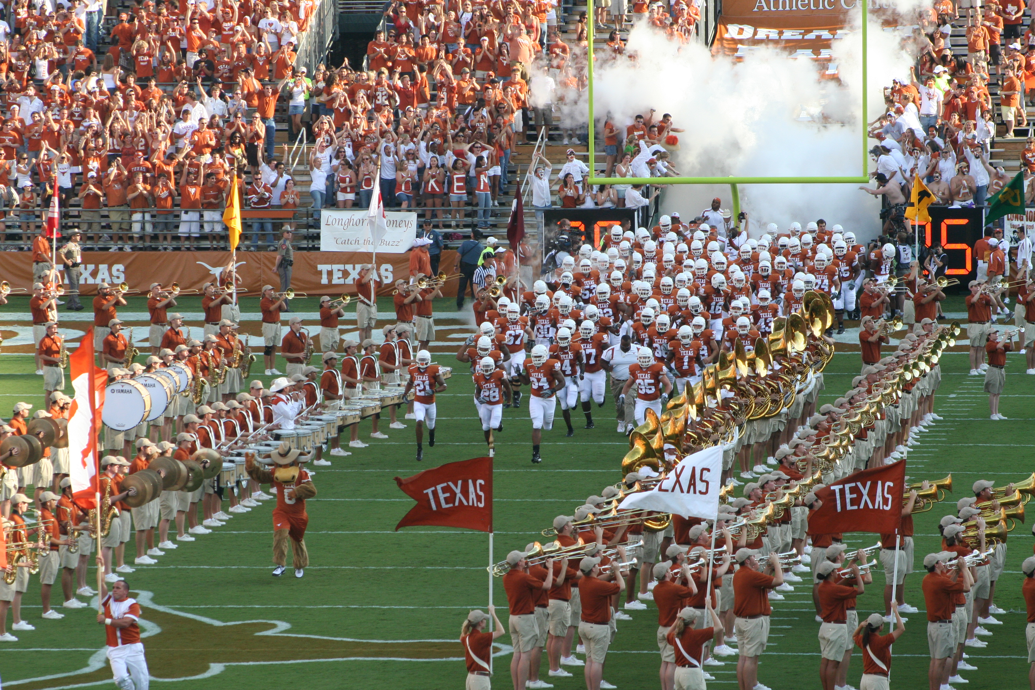 2007 Texas Longhorns football team enters the field on opening day